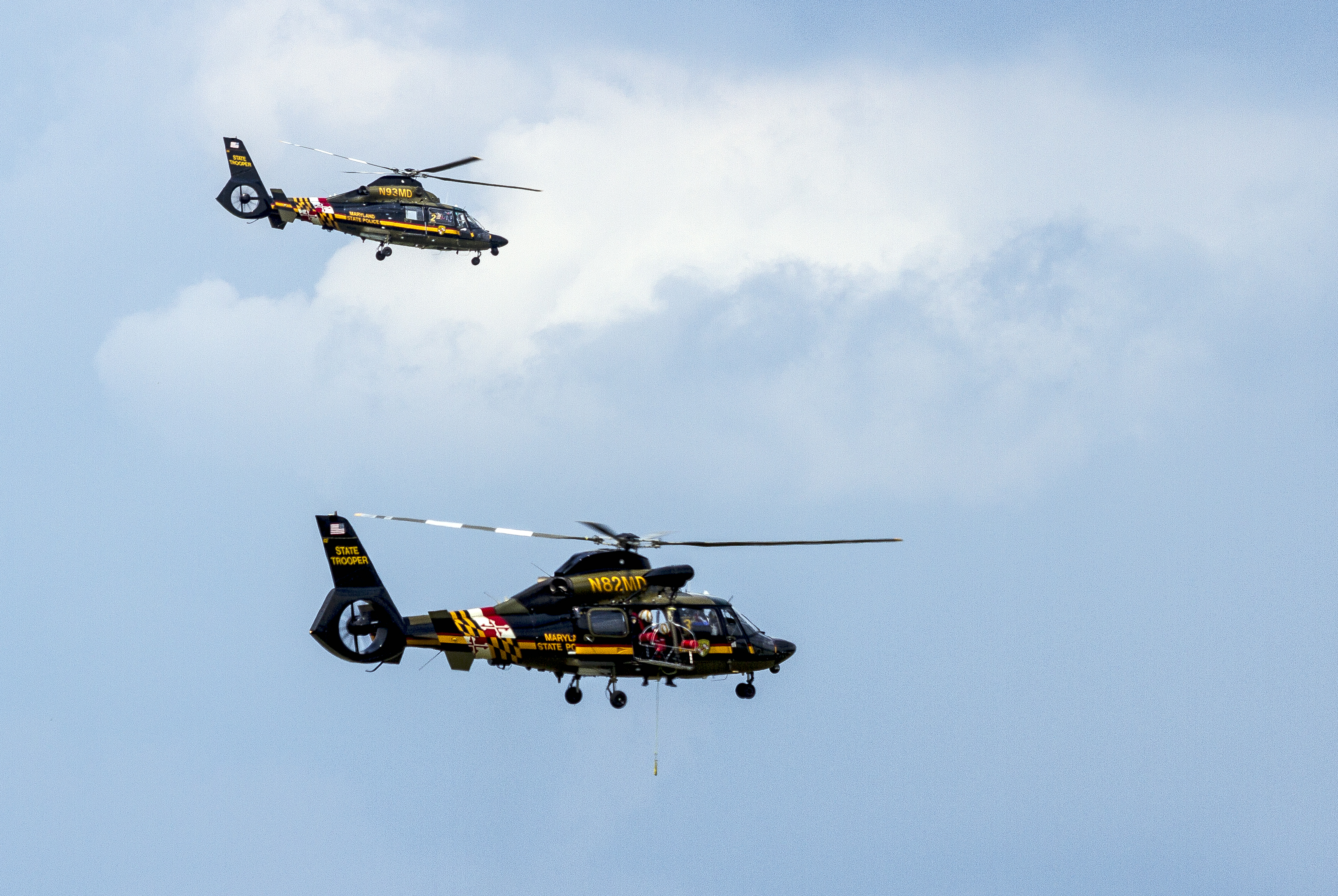 Maryland State Police Aerospatiale Dauphin helicopters at Frederick Municipal Airport, Frederick, Maryland, USA. N82MD/Trooper 2 (foreground) is practicing hoist operations from a hover while N93MD/Trooper 3 (background) is climbing out with a medical evacuation.